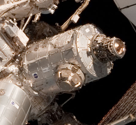 ISS027-E-036687 (23 May 2011) --- This image of the International Space Station and the docked space shuttle Endeavour, flying at an altitude of approximately 220 miles, was taken by Expedition 27 crew member Paolo Nespoli from the Soyuz TMA-20 following its undocking on May 23, 2011 (USA time). The pictures are the first taken of a shuttle docked to the International Space Station from the perspective of a Russian Soyuz spacecraft. Onboard the Soyuz were Russian cosmonaut and Expedition 27 commander Dmitry Kondratyev; Nespoli, a European Space Agency astronaut; and NASA astronaut Cady Coleman. Coleman and Nespoli were both flight engineers. The three landed in Kazakhstan later that day, completing 159 days in space.